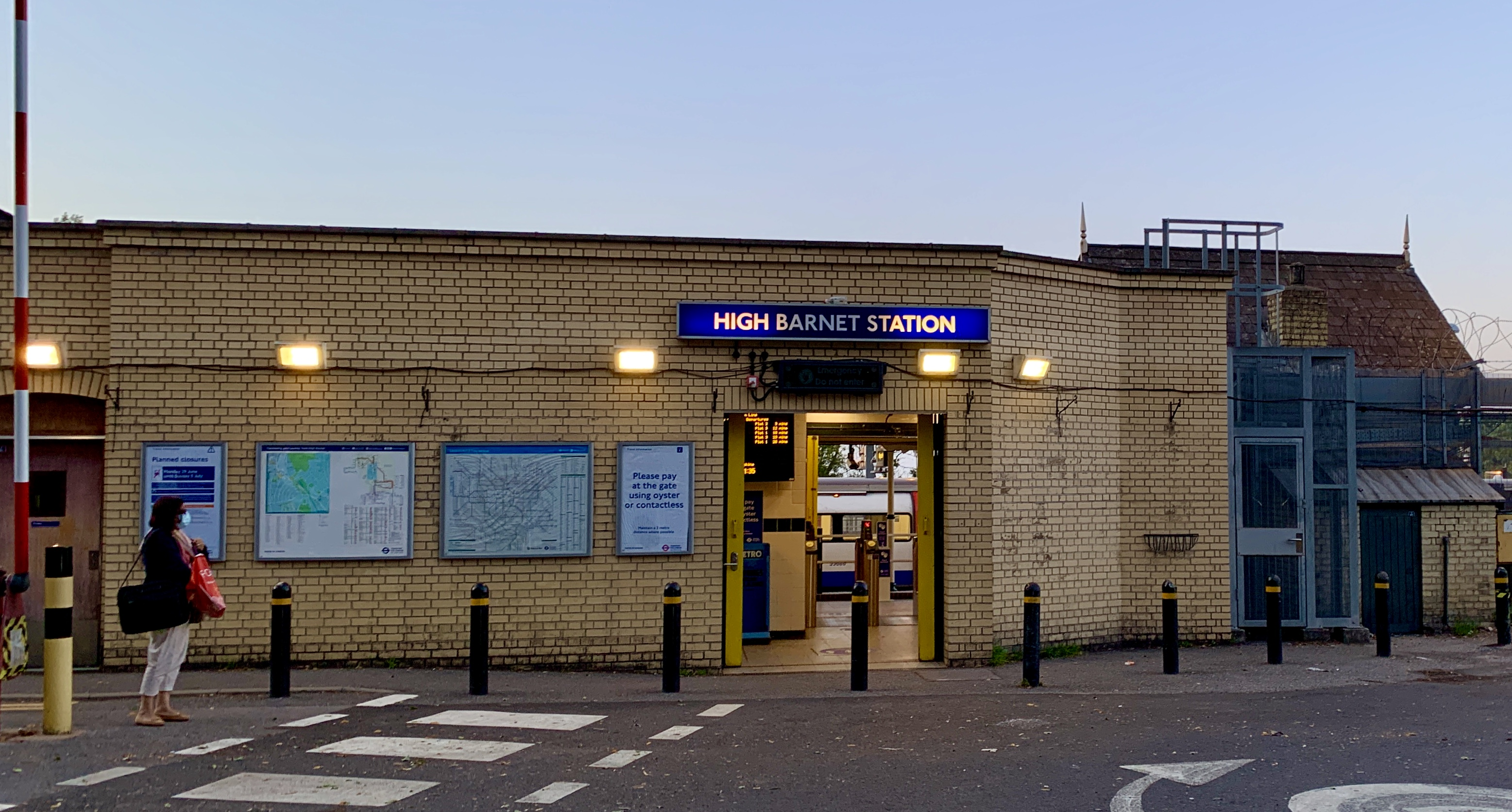 Station building of High Barnet tube station. Taken during my Northern Line Tube Walk.